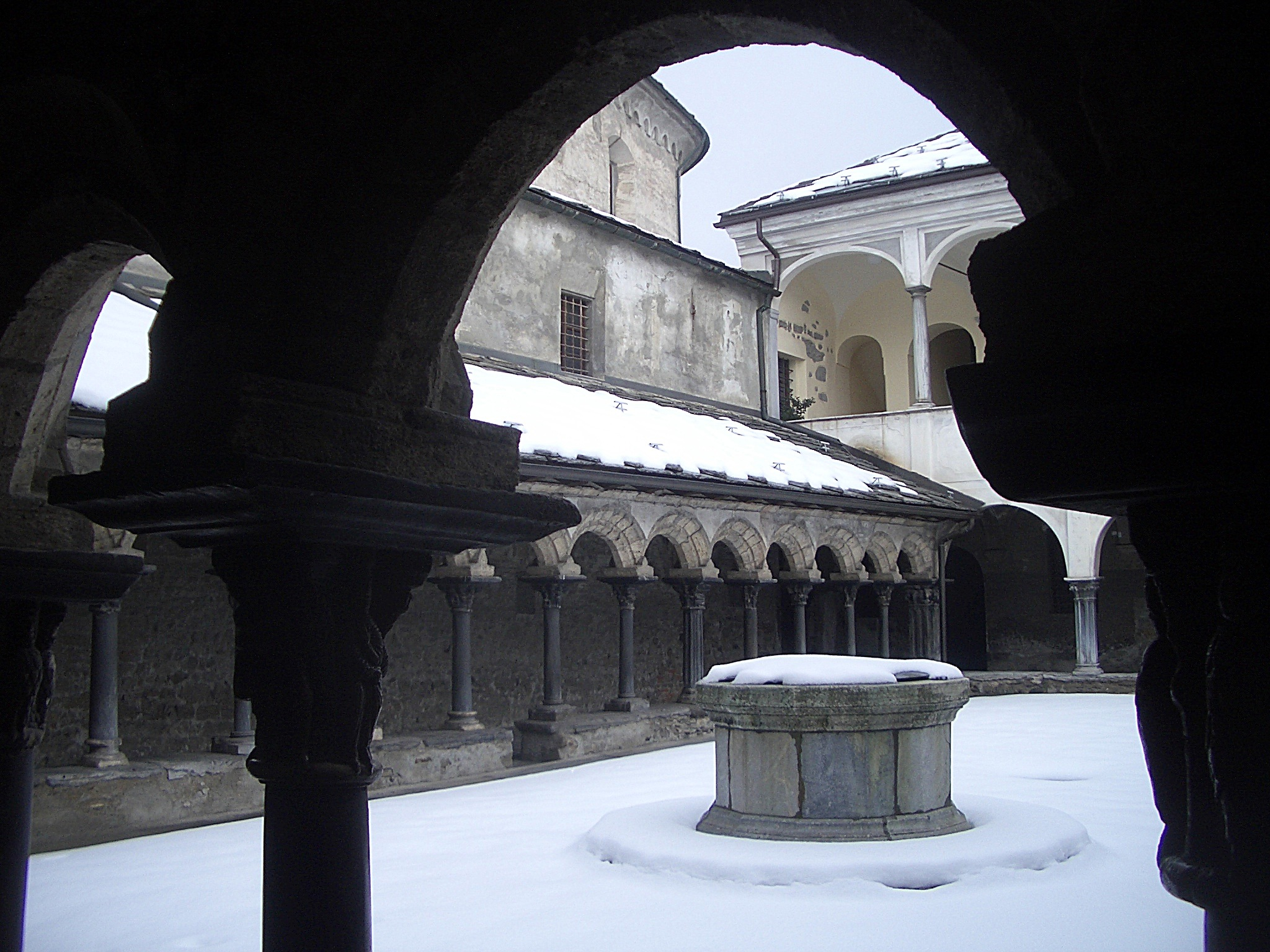 St. Orso Parish Church, Cloister in wintertime, Aosta, Italy